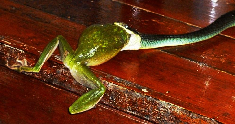 I took this photo in my kitchen near Cooktown, Queensland.